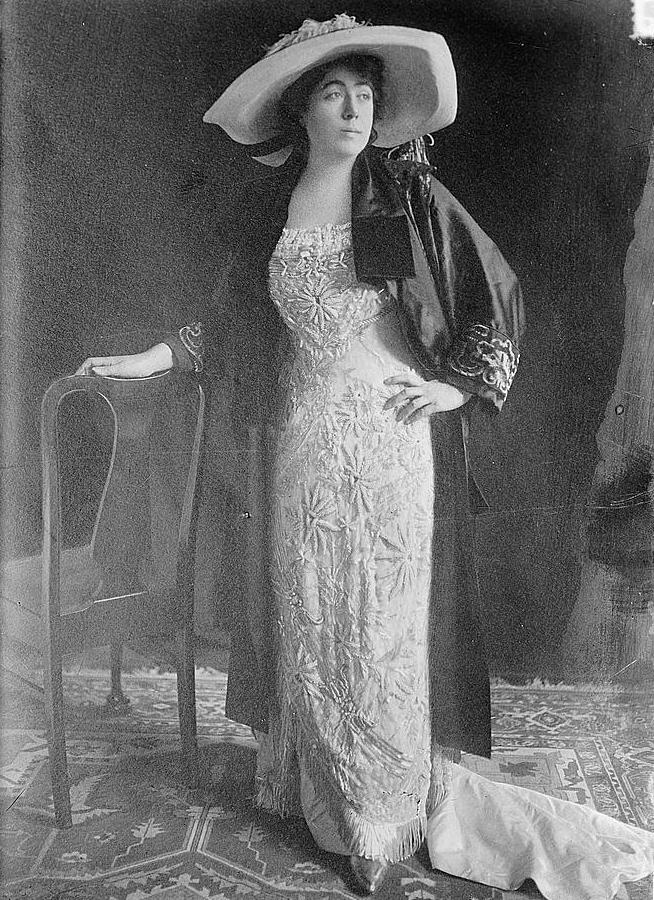 Mrs. J.J. Brown, standing